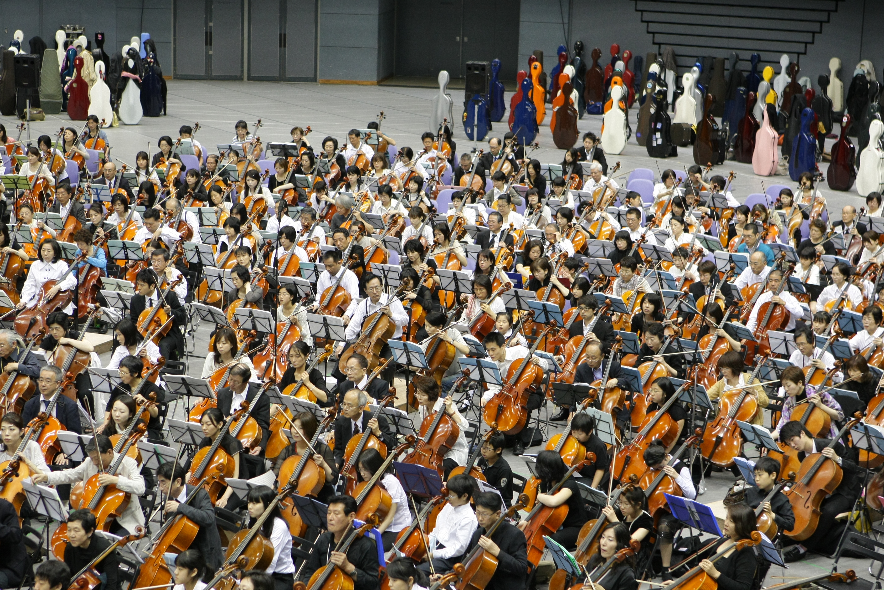 The 4th 1000 Cellists Concert ~ Heartfully Wishing for Peace on Earth from Hiroshima ~